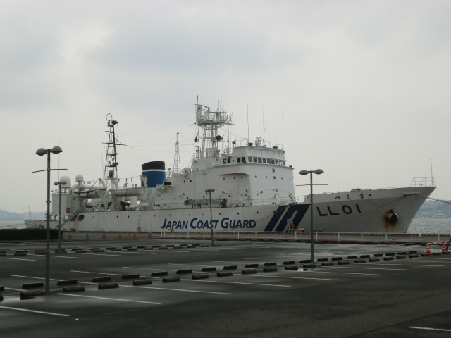 Sea mark measuring ship "Tsushima" of Japan Coast Guard in Mojiko, Kitakyushu city in Japan.